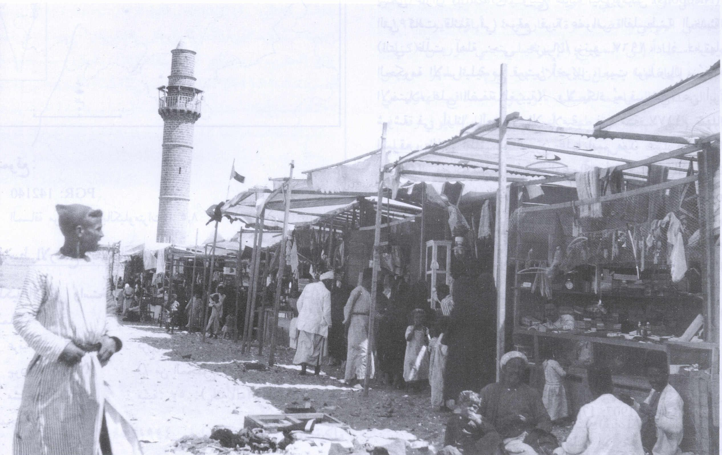 The yearly festival at Nabi Rubin.